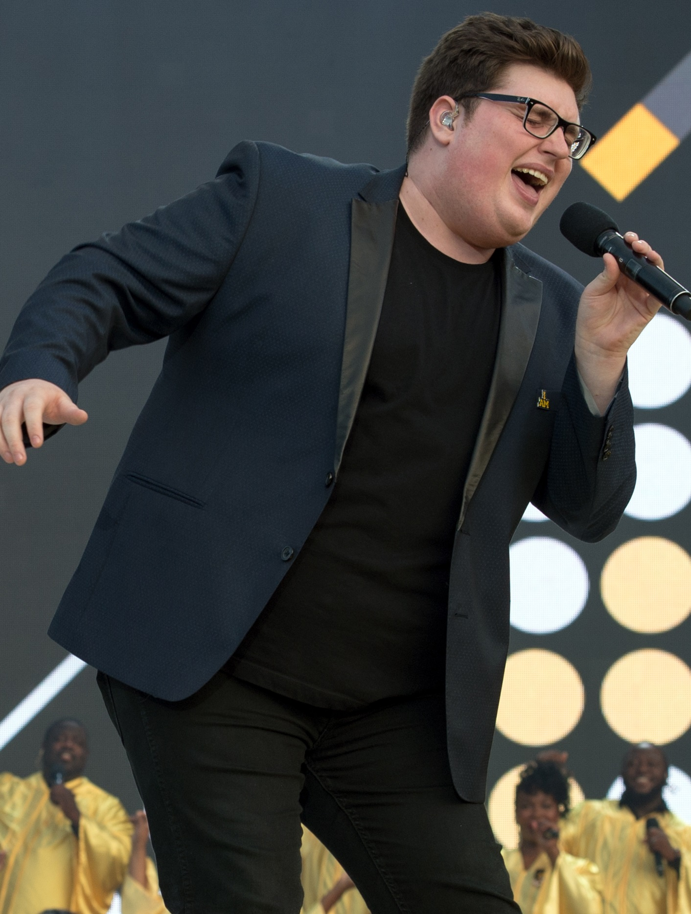 Recording artist Jordan Smith performs during the 2016 Invictus Games closing ceremonies in Orlando, Fla. May 12, 2016. (DoD photo E. Joseph Hersom)